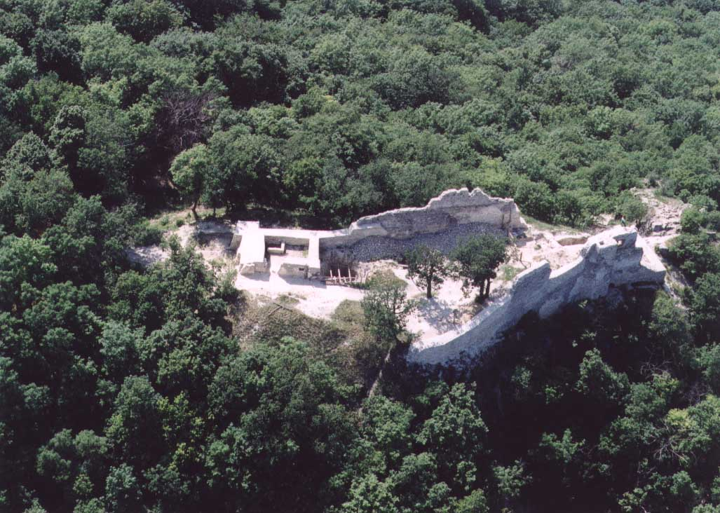 Castle - Rezi - Hungary - Europe